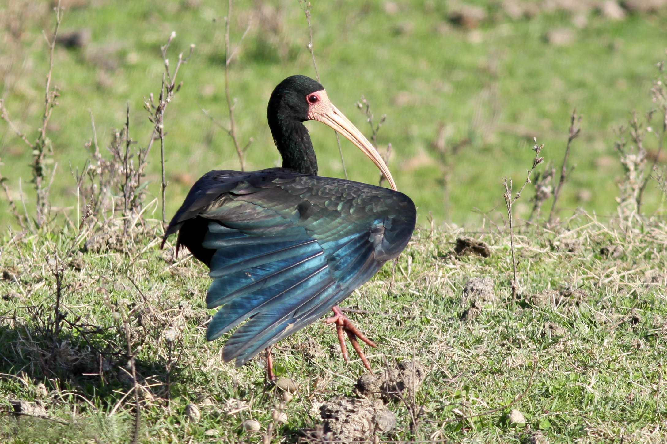 Phimosus infuscatus